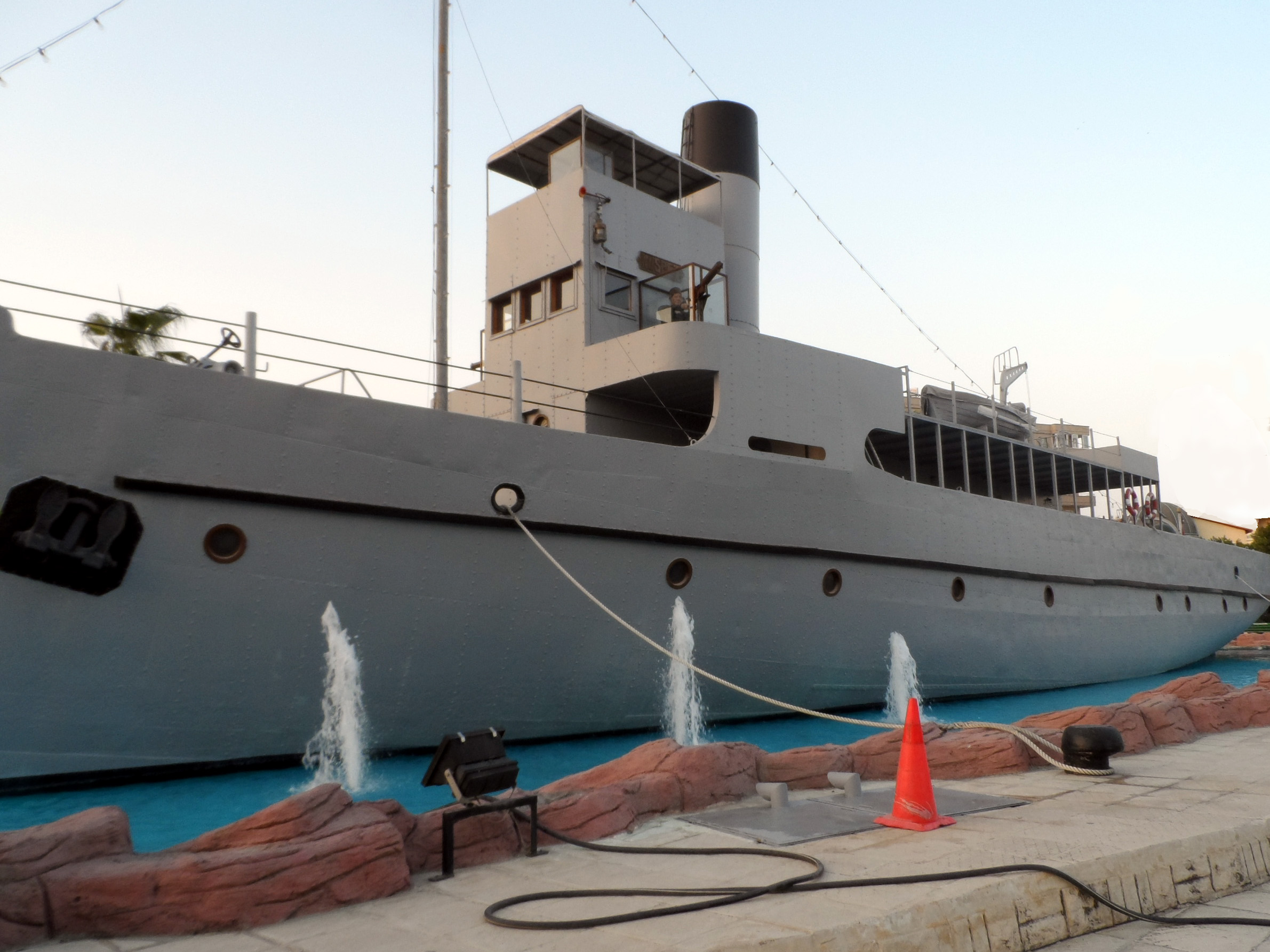 Nusrat minelayer in Tarsus Çanakkale Park